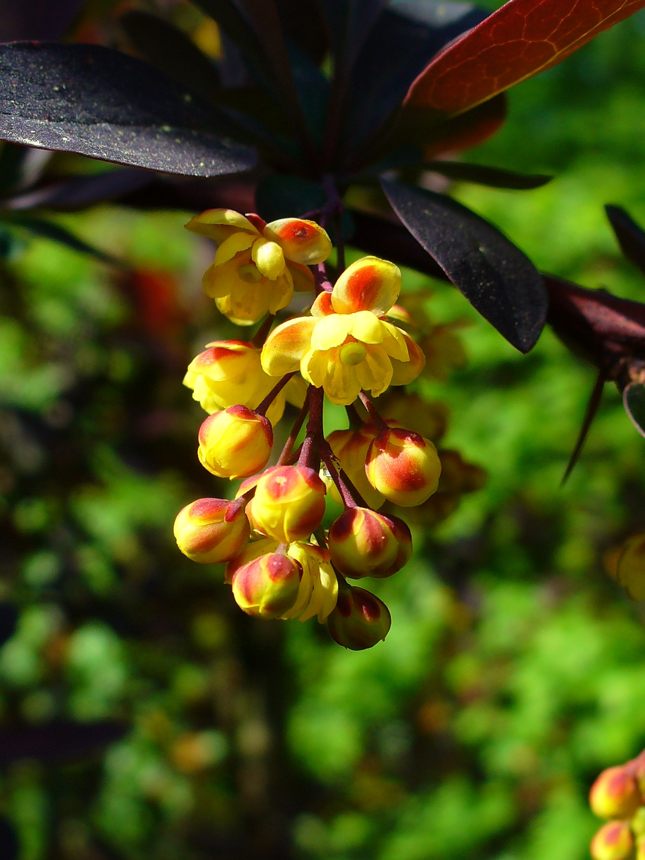 Berberis vulgaris ‘Atropurpurea’, Berberidaceae, European Barberry, inflorescence; Botanical Garden KIT, Karlsruhe, Germany. The bark is used in homeopathy as remedy: Berberis (Berb.)